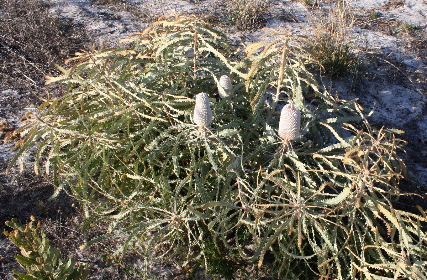 Prostrate form of Banksia prionotes in cultivation, photo taken in late bud - inflorescences all white.